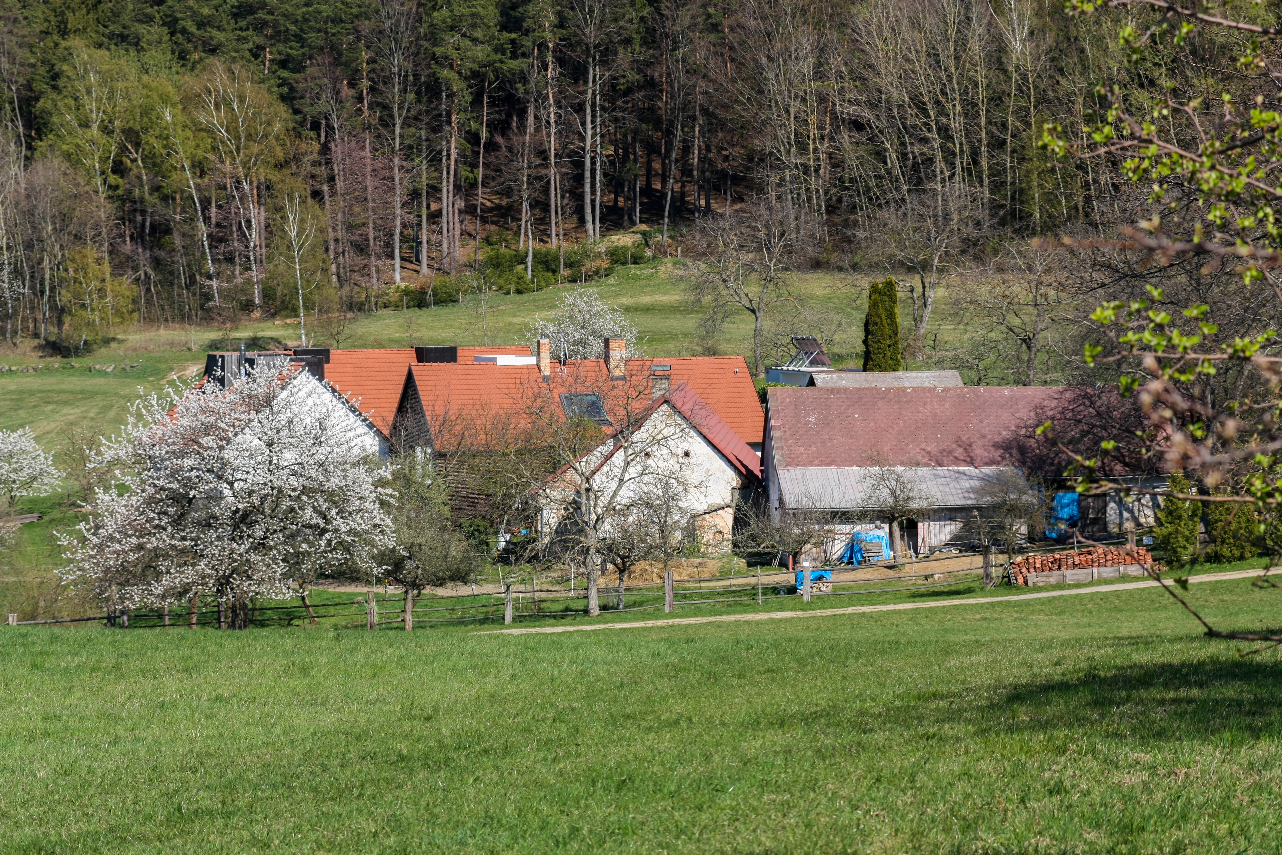 View on municipality Předbojov, Tábor District, South Bohemian Region, Czechia